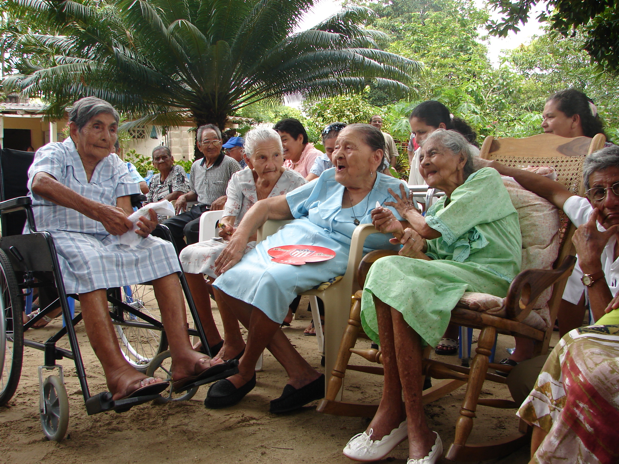 Elderly people of the town in a social event